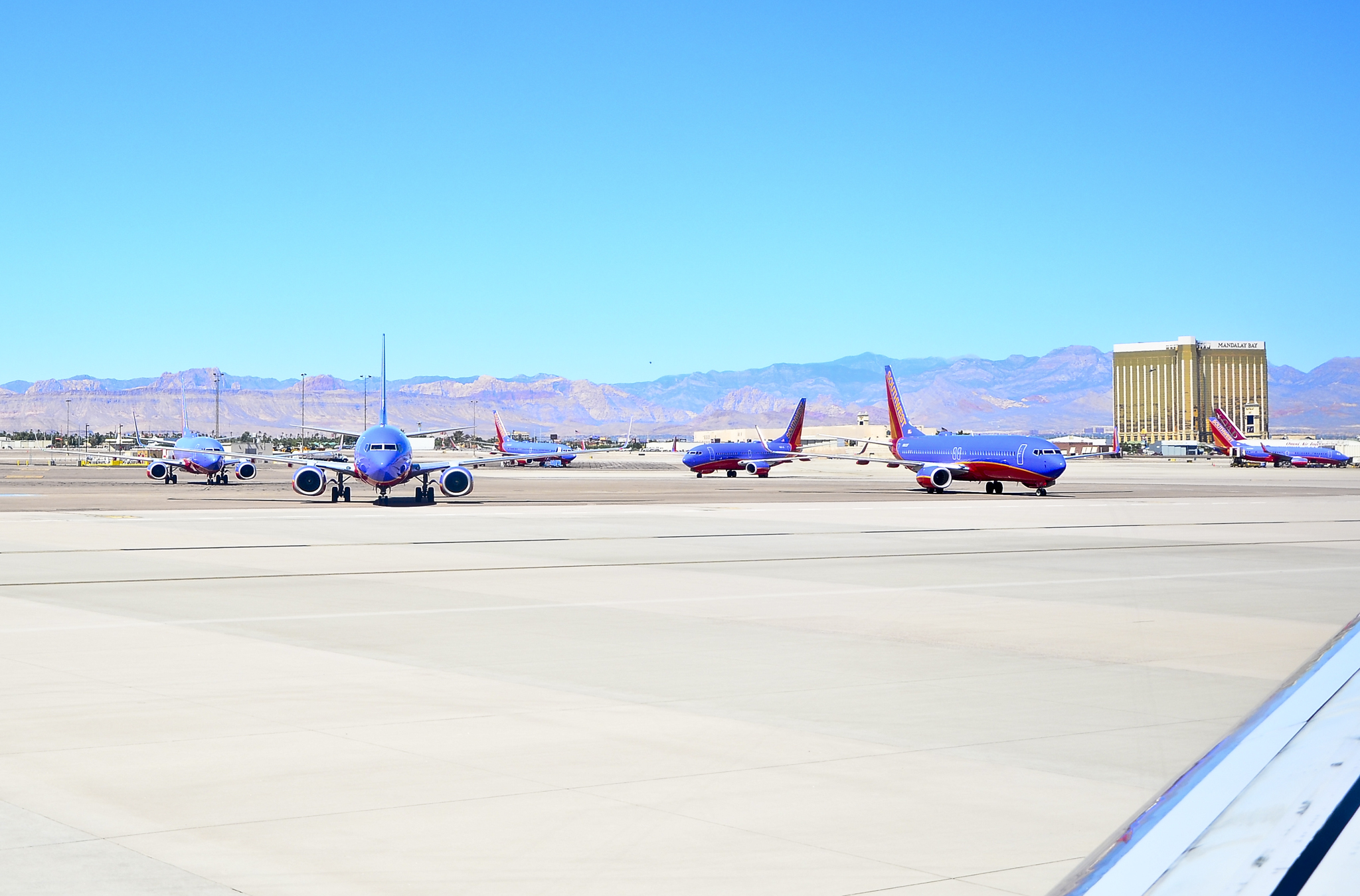 Las Vegas - McCarran International (LAS / KLAS) USA - Nevada, September 1, 2012 Photo: Tomás Del Coro